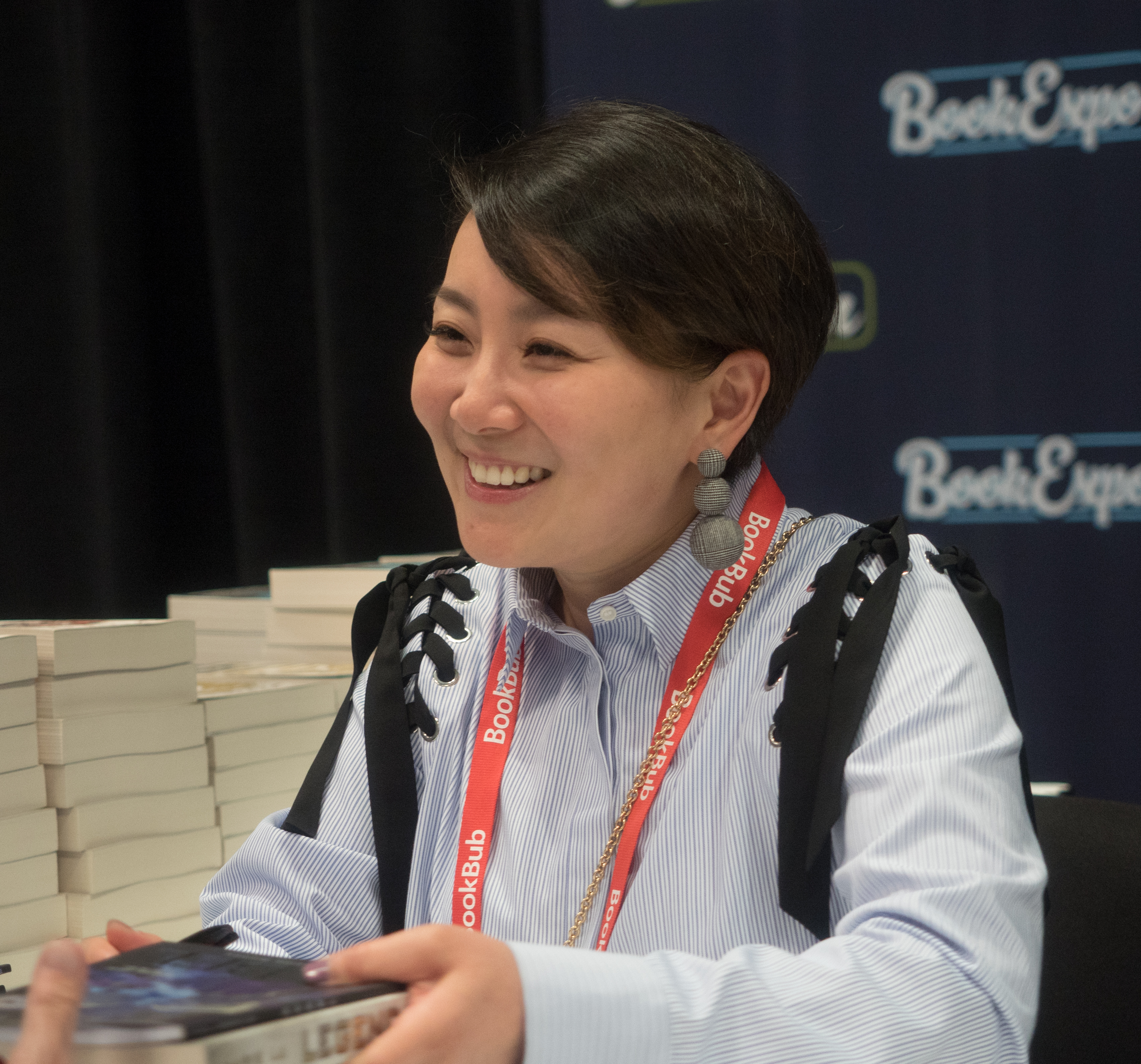 Marie Lu at BookCon